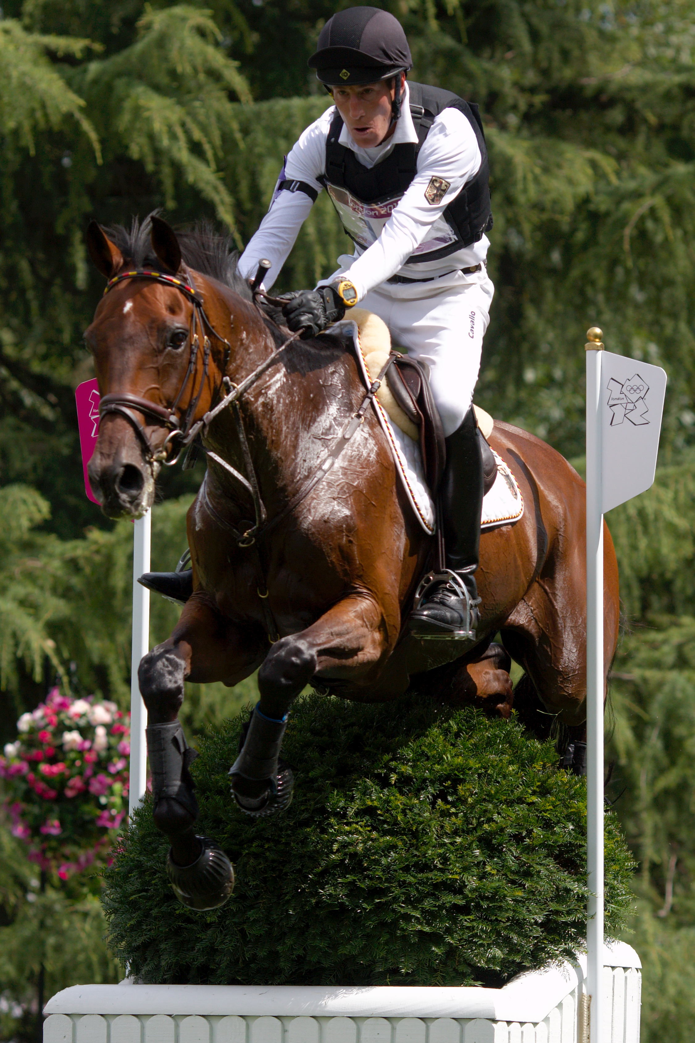 Dirk Schrade and King Artus, competing for GER, at fence 22, during the cross-country phase of the Eventing during the 2012 Olympic Games in Greenwich Park, London.